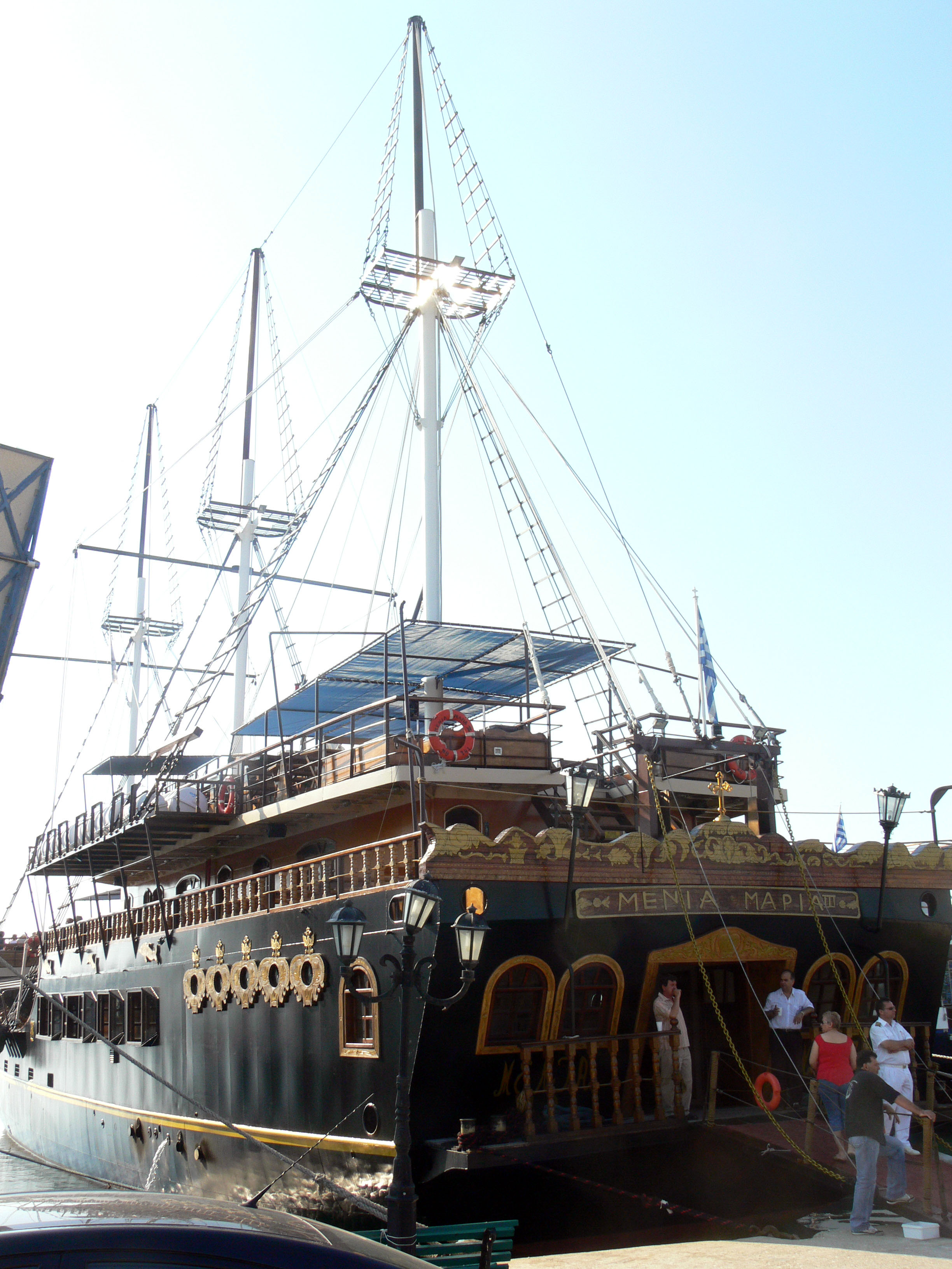 Touristschiff «Menia Maria»